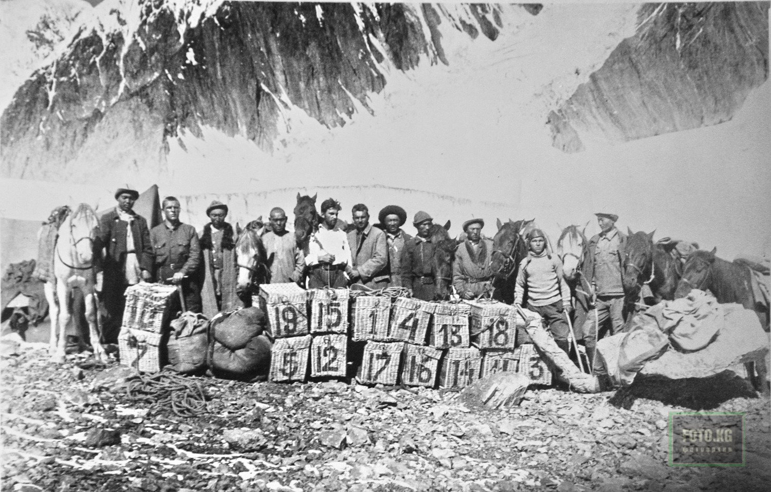 Participants of an expedition of 1931 under the leadership of M. T. Pogrebetsky to Tien Shan to the region of Khan Tengri